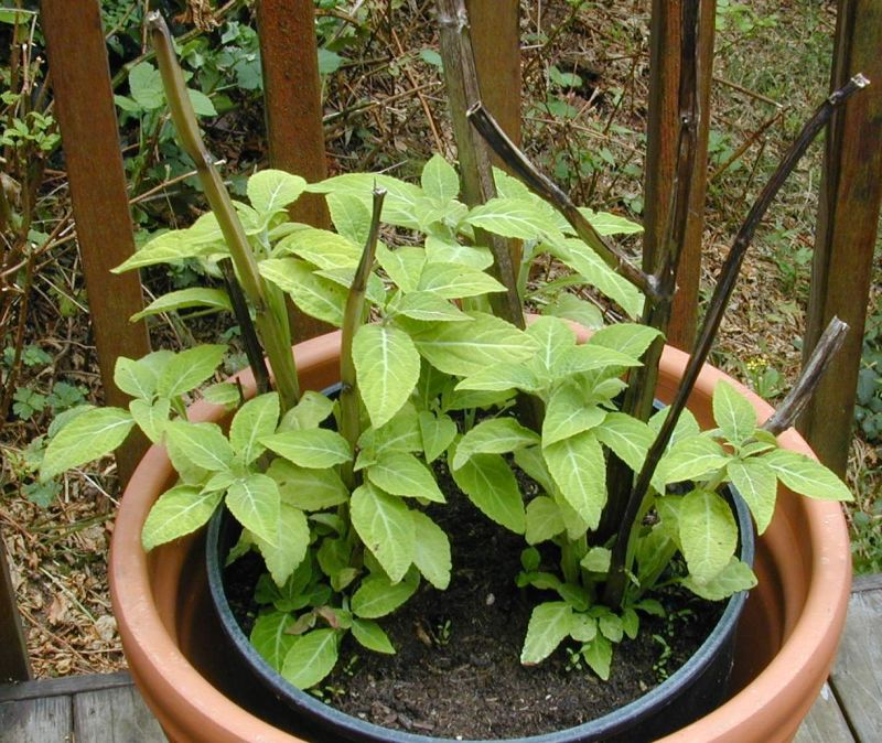 Salvia divinorum. Original image was of an unhealthy plant that did not do justice to the plant's usual appearance.